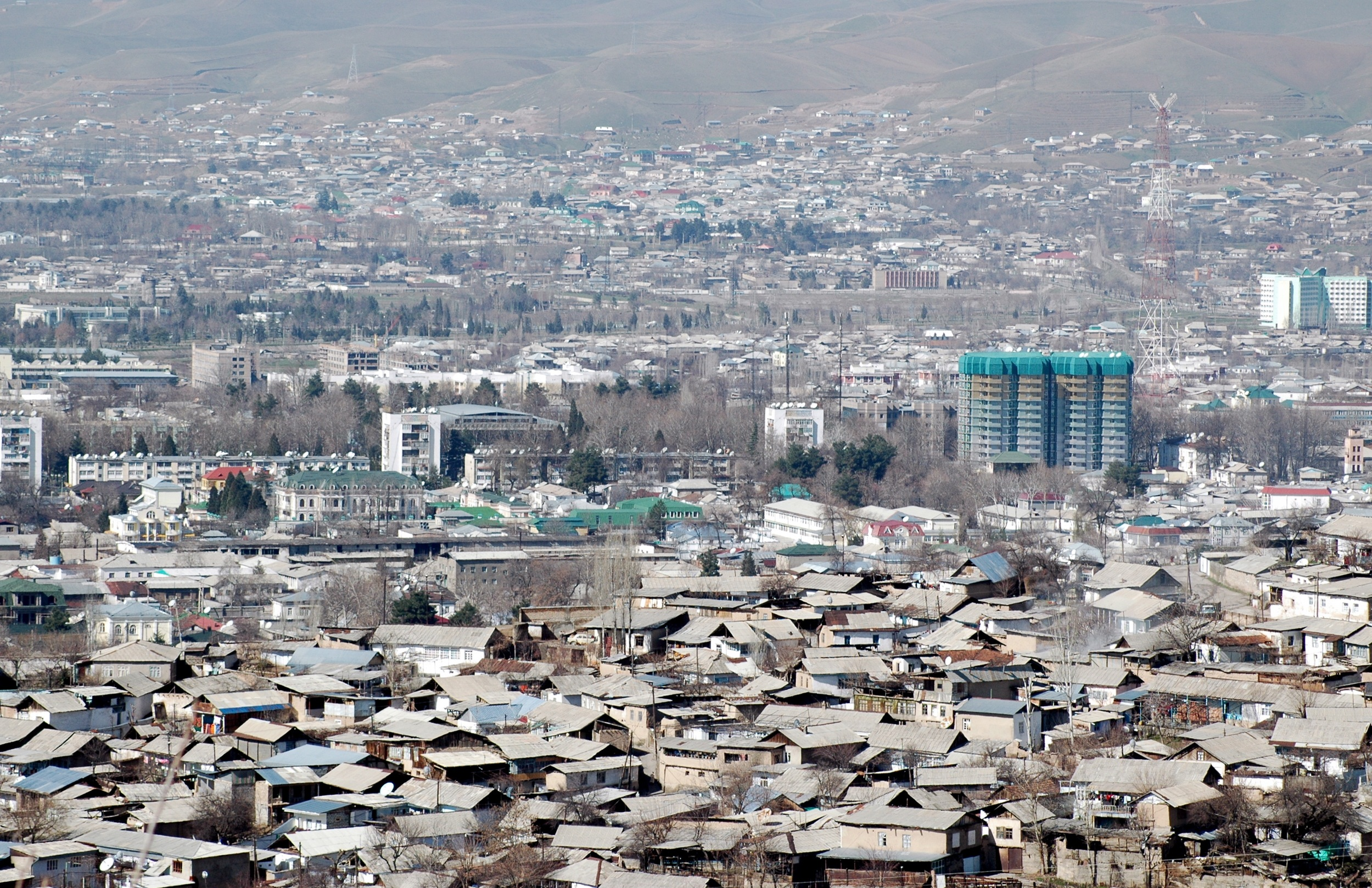 Panoramic view of Dushanbe